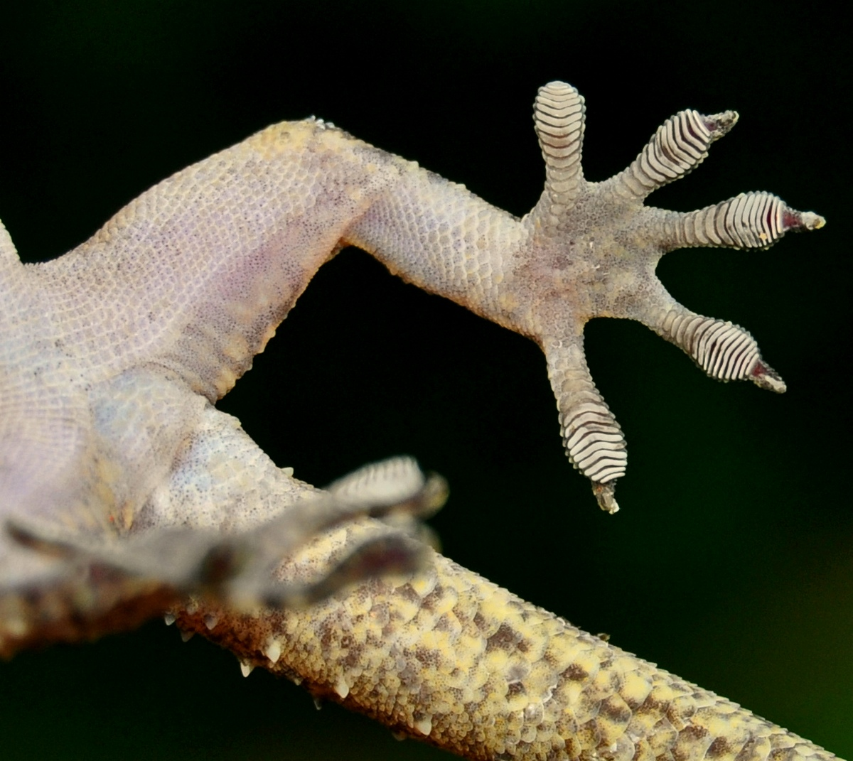 Gekko monarchus, Spotted House Gecko; foot close-up (underside). From oil-palm plantation in Upper Seruyan, Central Kalimantan, Indonesia